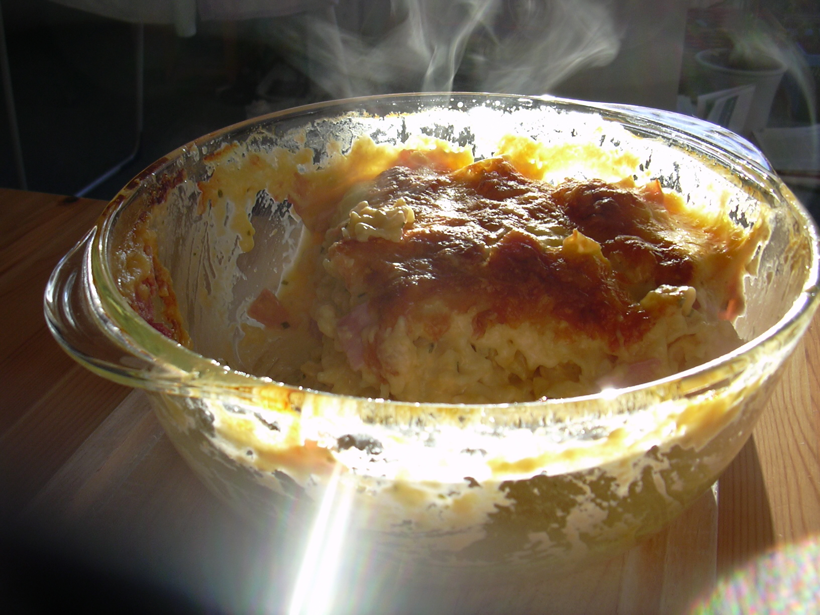 Noodle ham gratin